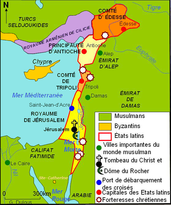 Crusader states XIIe century